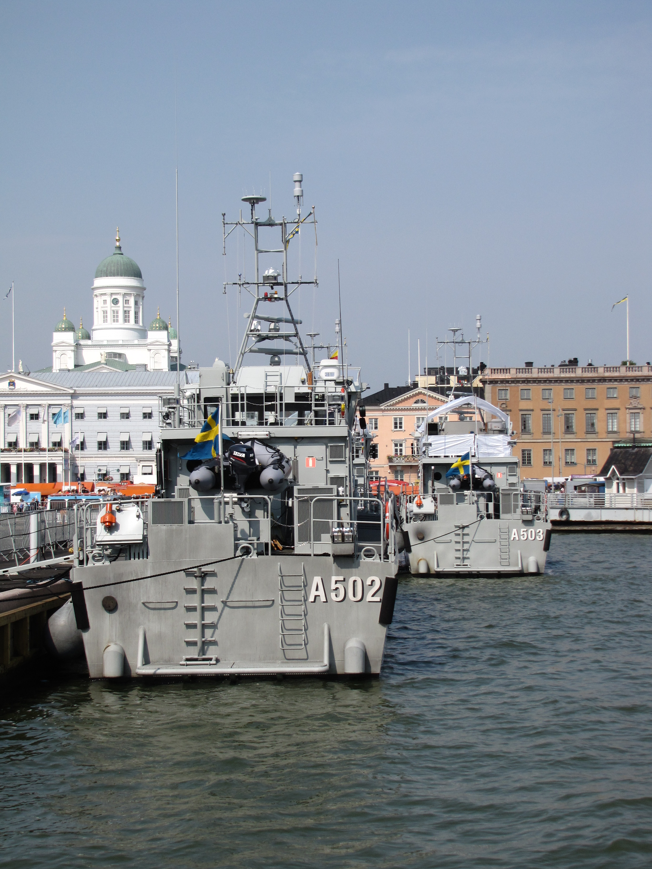 Swedish Altair class training ships Antares (A502), Arcturus (A503) and Argo (A504, behind Antares). Photographed in Helsinki South Harbour during Nordic naval cadet meeting.